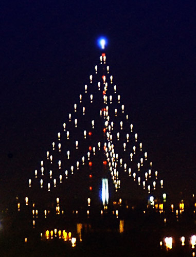 The Gerbrandy Tower at Christmas, the world's tallest Christmas Tree. Picture taken from a highrise about 10 km away.)